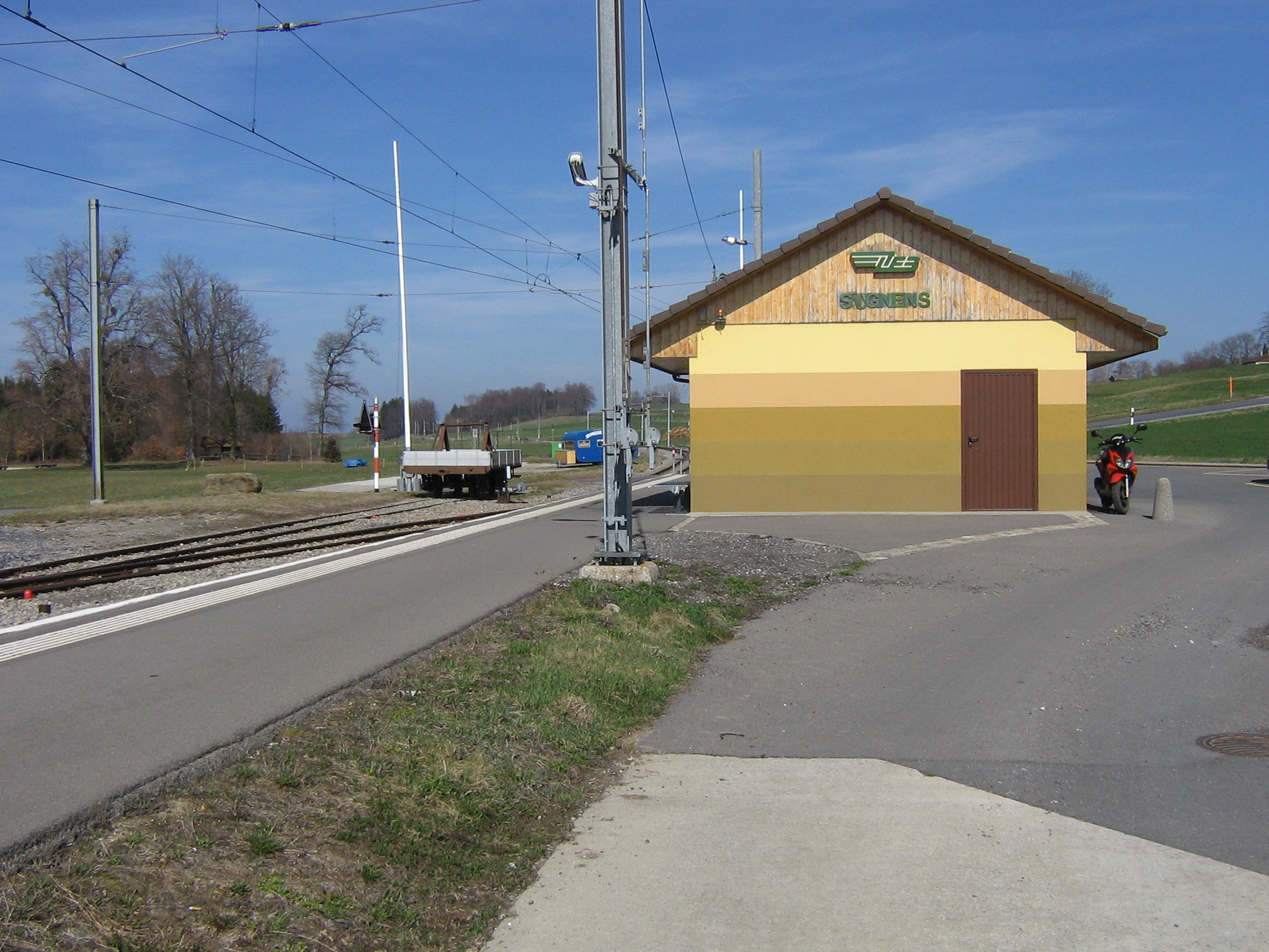 Global view of the railway station of Sugnens.